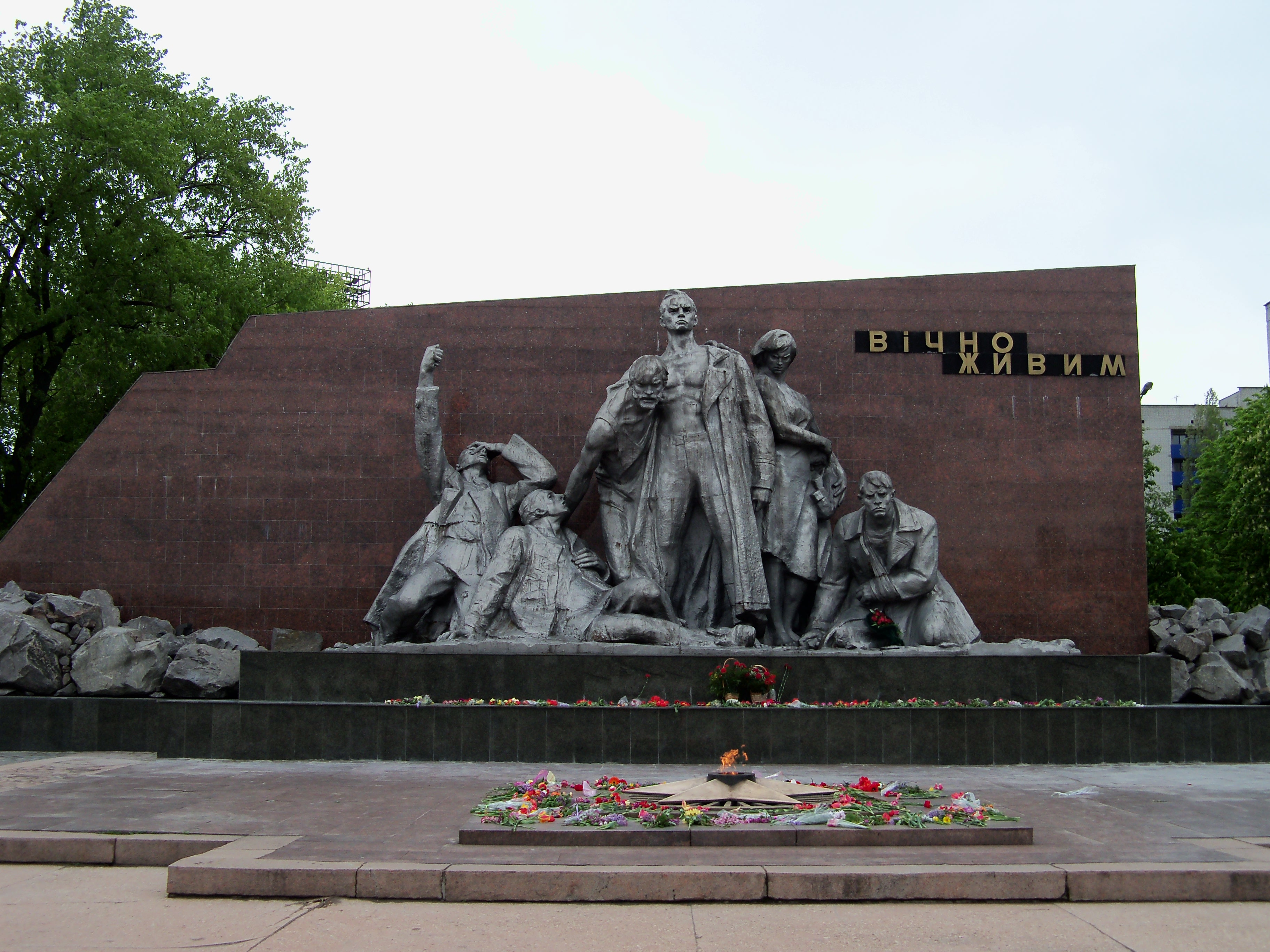 «Vichno zhyvym» memorial in Kremenchuk